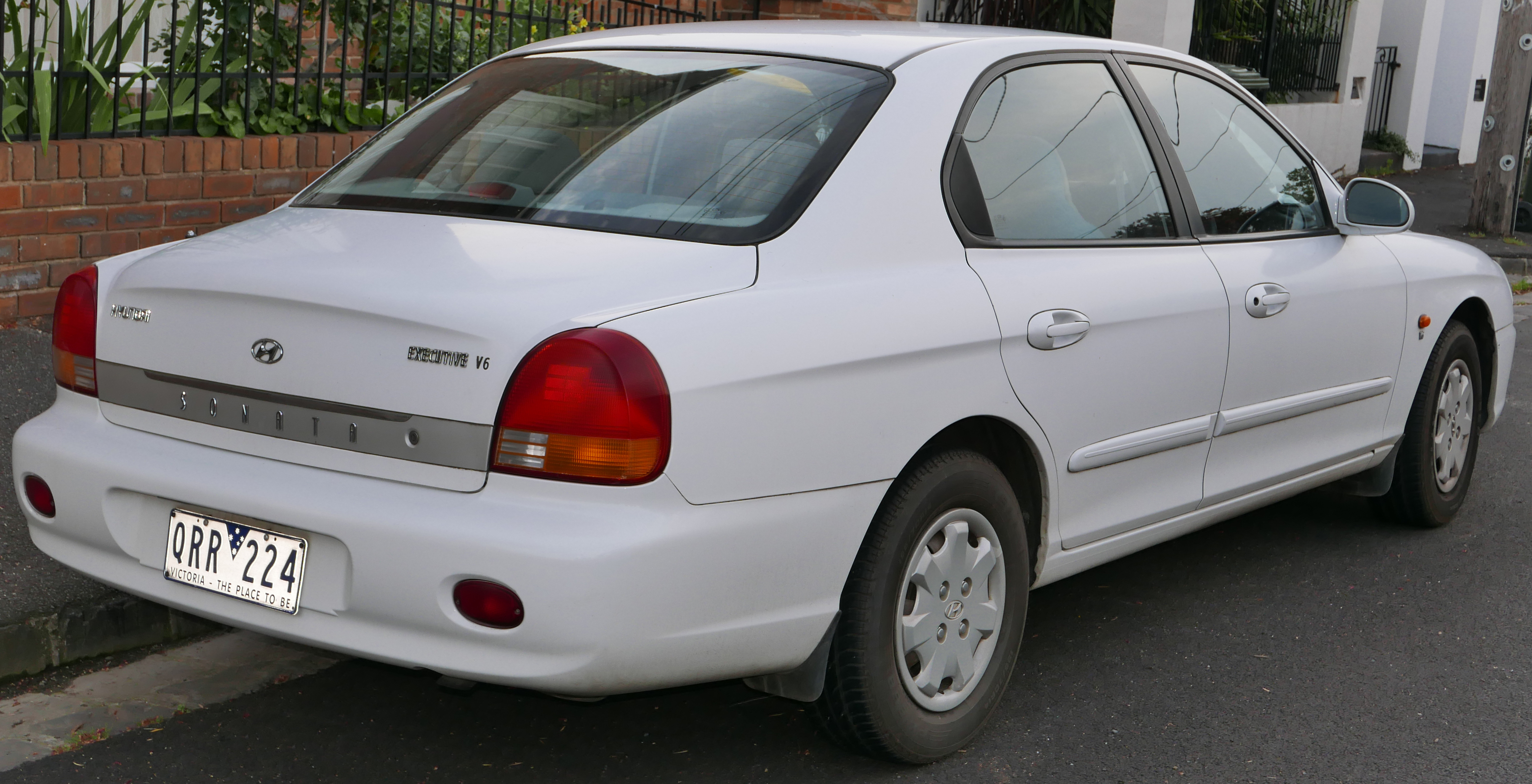 2001 Hyundai Sonata (EF) Executive V6 sedan. Photographed in Brunswick, Victoria, Australia. Vehicle registration enquiry resultsJurisdictionVictoriaRegistrationQRR224Chassis codeKMHEM41ERYA334121Engine codeG6BVY152853Compliance date2001-02Year of manufacture2001